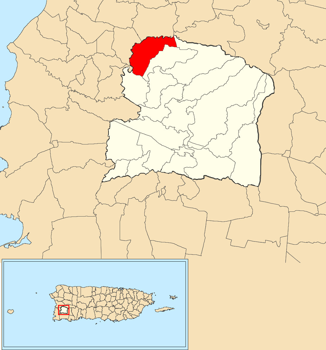 Rosario Bajo, San Germán, Puerto Rico locator map